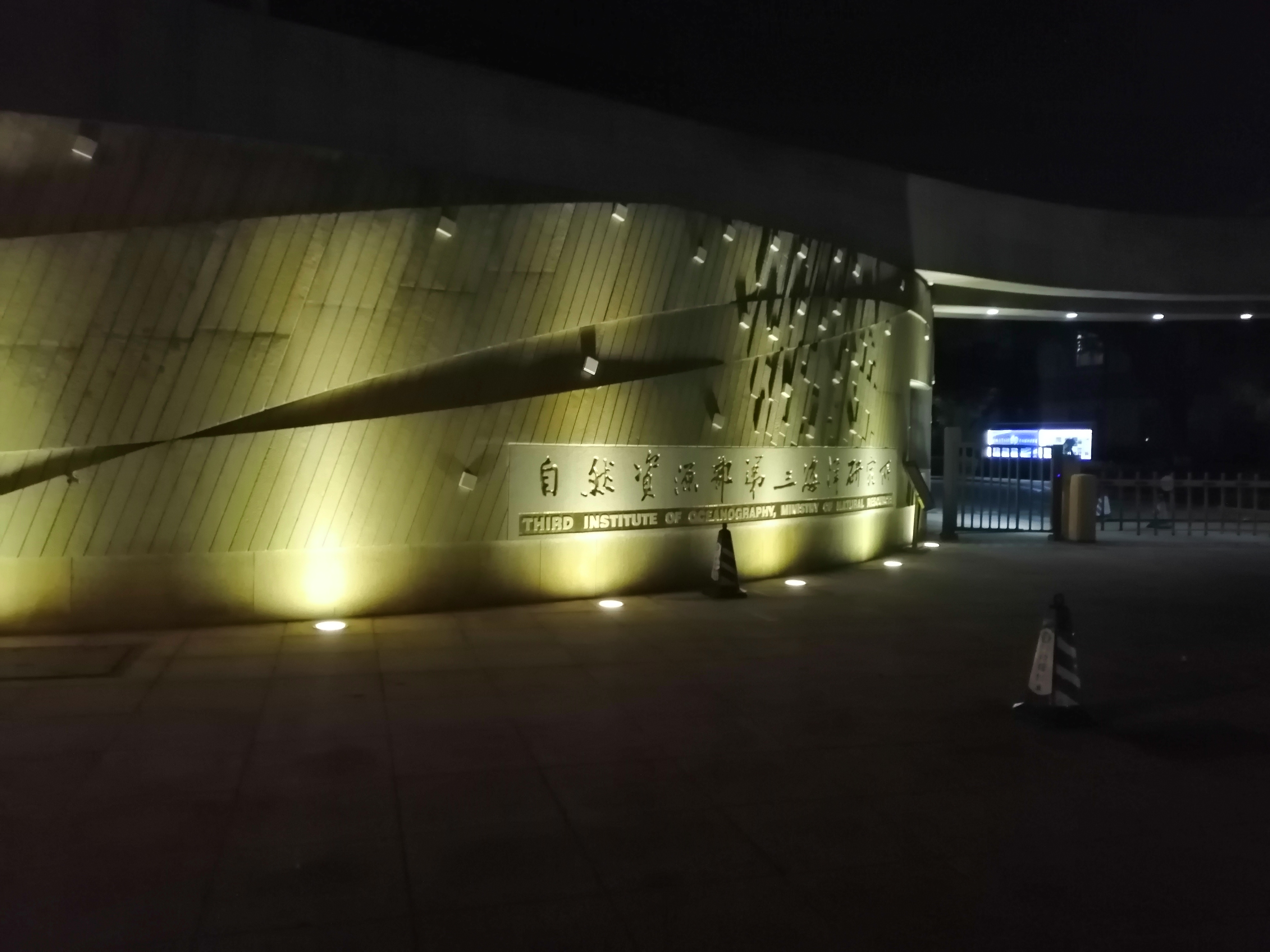 Located on Daxue (University) Road, near Xiamen University.